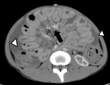 CT of granulomatous peritonitis. For context, see Peritoneal carcinomatosis.